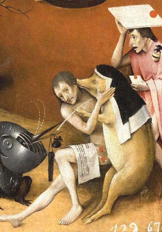 Detail of "The Garden of Earthly Delights" by Hieronymus Bosch, from right panel "hell", lower right corner.